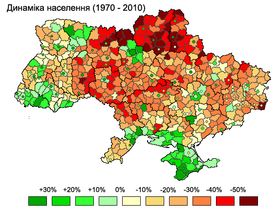 Population change in Ukraine between 1970 and 2010.